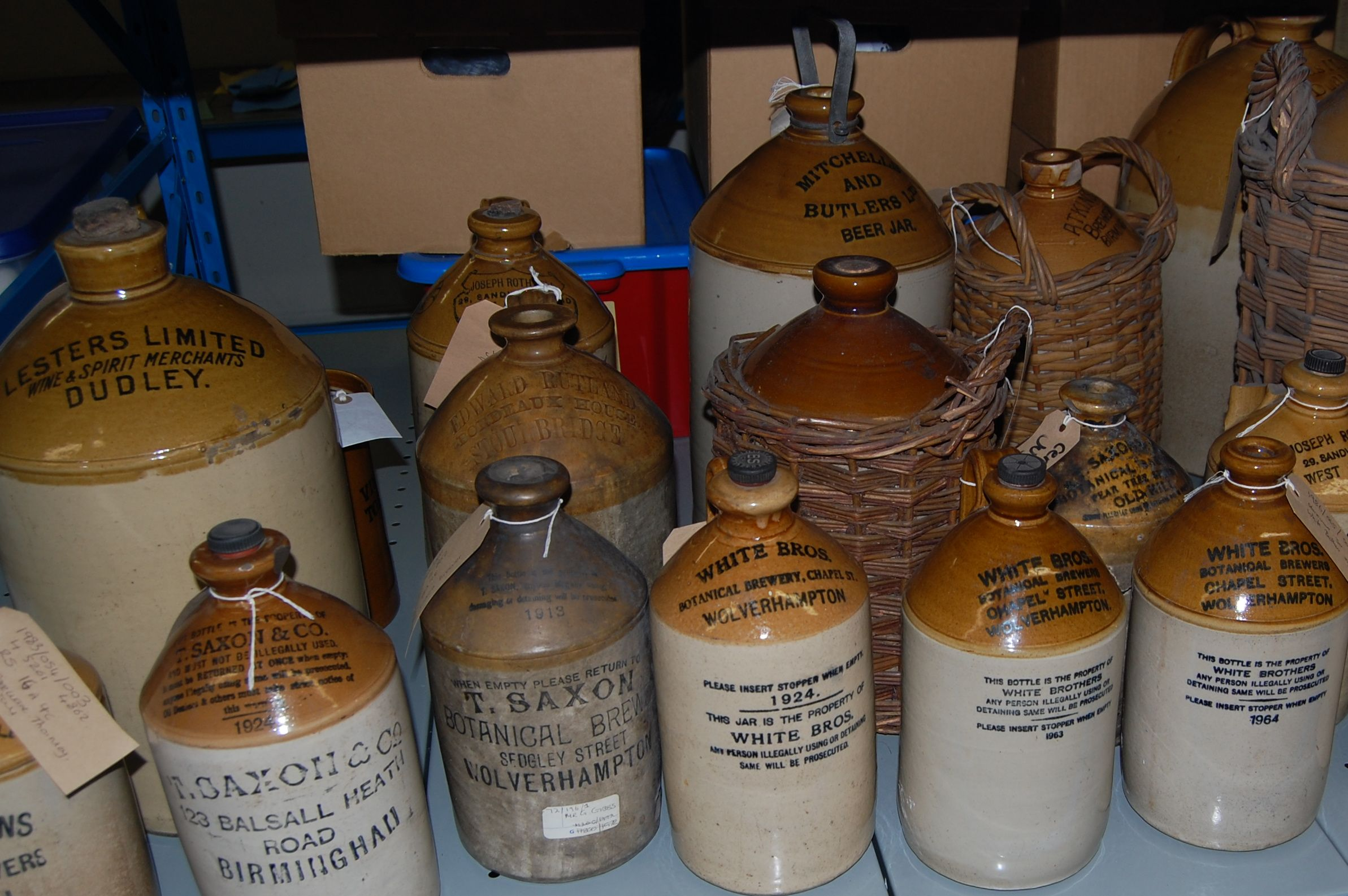 Variety of stone bottles in a storeroom of the Black Country Living Museum.